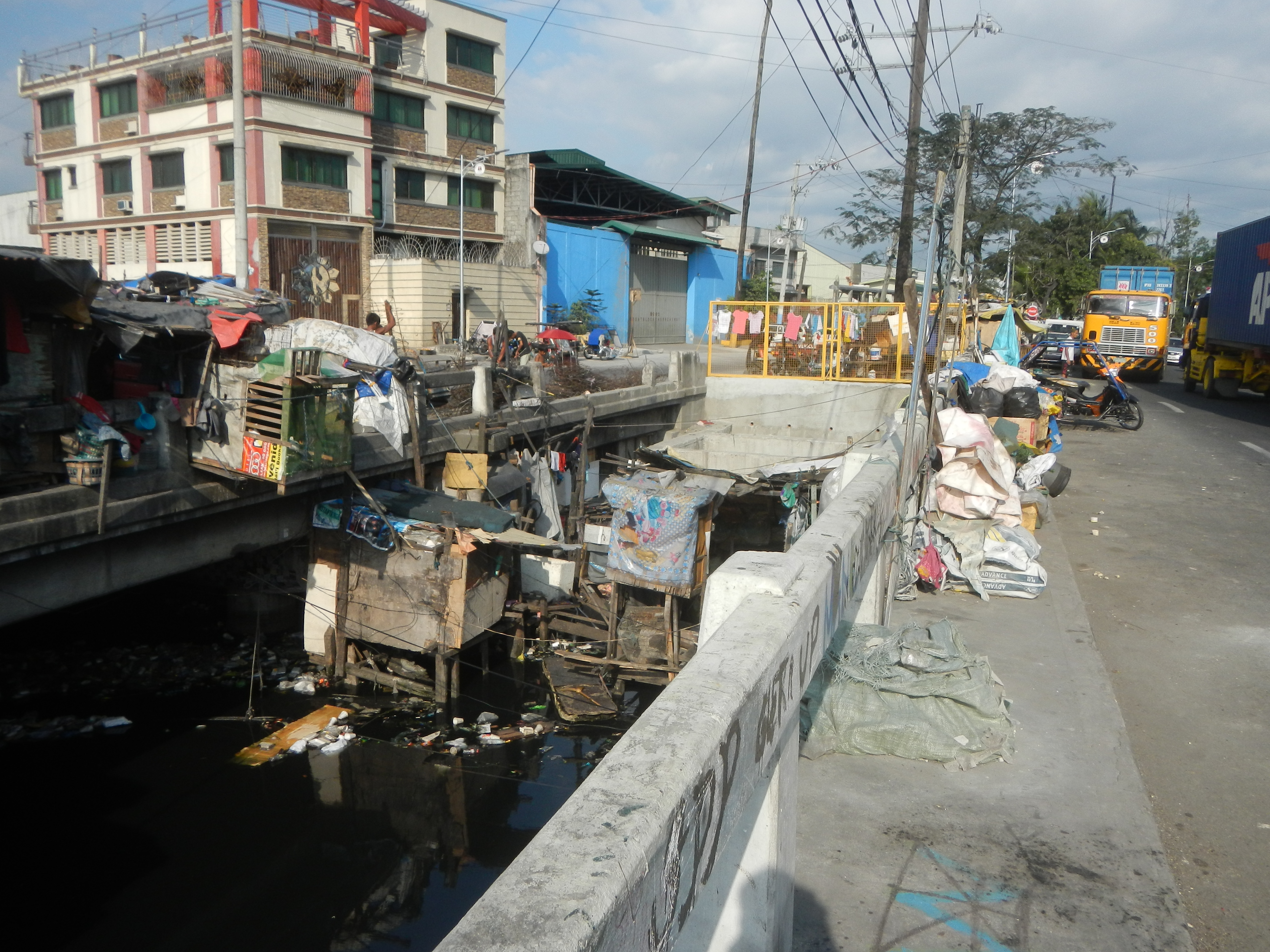 C-2 Road Capulong Bridge (Estero de Vitas) Sta. 5+970.20 P 17.851 drainage improvement 15 metric tons load limit Slums in Manila Barangays 93 149 150 Waste pickers in the Philippines Oceanic Container Lines, Inc. Raxabago Street 14°37'14"N 120°58'13"E from Pedestrian footbridge - Puregold Tayuman (Juan Luna Street, C-2 Capulong Street &Tayuman Street, Pritil, Tondo, Manila) Pritil bridge 14°37'4"N 120°58'14"E Juan Luna 14°35'59"N 120°58'24"E Puregold Tayuman 14°37'6"N 120°58'18"E Tayuman Street (C-2) 14°37'0"N 120°58'41"E Tayuman Street, Tondo, Manila Capulong 14°37'15"N 120°58'6"E Capulong Street (C-2 Road) (C-2) 14°37'13"N 120°57'54"E Raxabago Street 14°37'14"N 120°58'13"E in List of barangays of Metro Manila Legislative districts of Manila 2nd District, a) Barangays 55, Zone 4, District I, b) Barangays 86, 87, 88, 89, 90, 91, Zones 7 & 8, District I, c) Barangays 149, 150, 151, Zone 13, District II, Tondo, Manila (Note: Judge Florentino Floro, the owner, to repeat, Donor Florentino Floro of all these photos hereby donate gratuitously, freely and unconditionally all these photos to and for Wikimedia Commons, exclusively, for public use of the public domain, and again without any condition whatsoever).